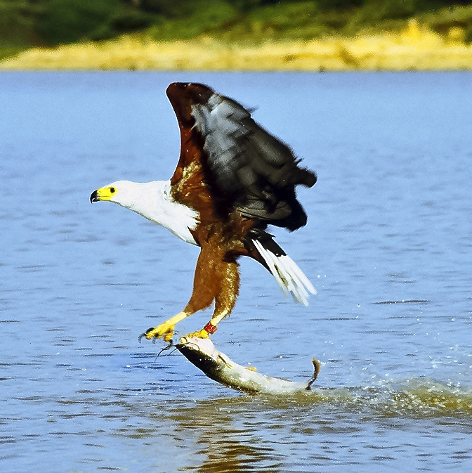 African fish eagle just caught a cat fish in Lake Baringo, Kenya